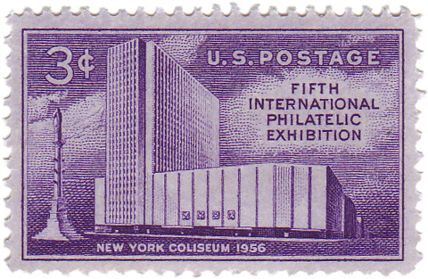 1956 USPS postage stamp showing the NYC Coliseum